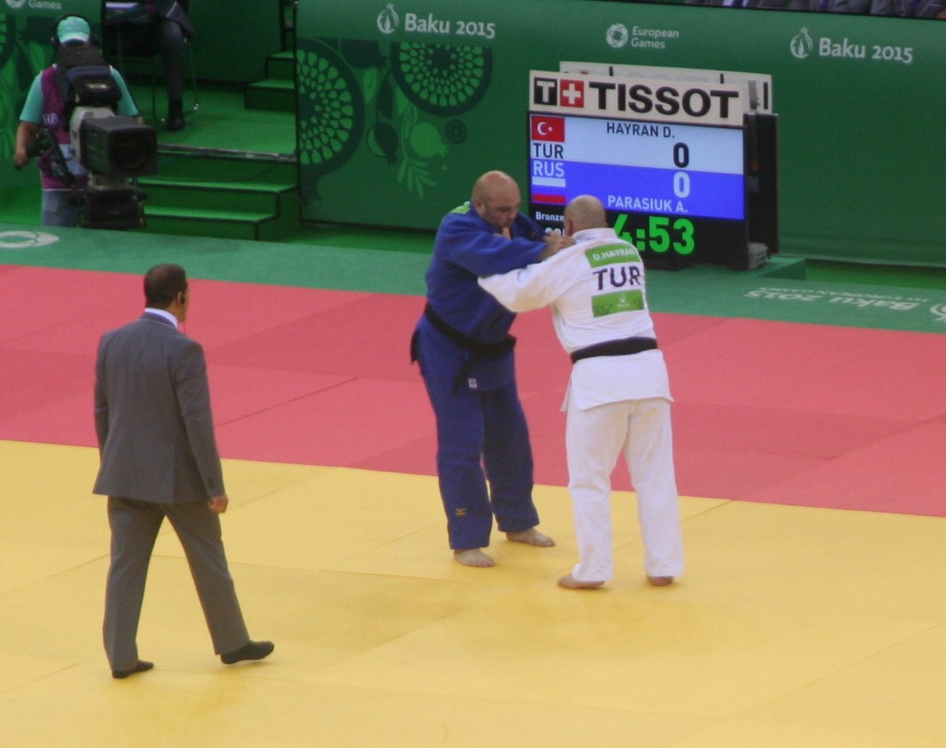 Hayran (TUR) vs Parasiuk (RUS) at the bronze final of the 2015 European Games